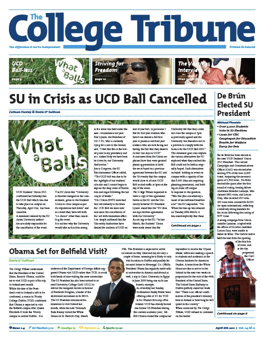 Front page of the College Tribune, 6th April 2011.